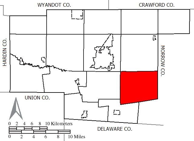 Made by the US Census and modified by myself to highlight the township